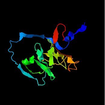 Predicted 3D model of human C16orf82